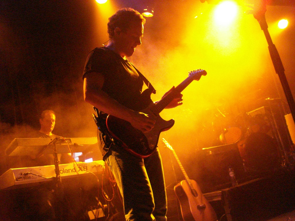 Lead guitarist Daniel Cavanagh